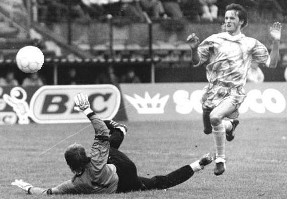 Title: FC Berlin - FC Hansa Rostock 0:3 Factual corrections and alternative descriptions are encouraged separately from the original description. Additionally errors can be reported at this page to inform the Bundesarchiv. Original historic description: ADN-Bernd Settnik-5.9.90-Berlin: Oberliga FC Berlin - FC Hansa Rostock 0:3 (0:3) Rostocks Henry Fuchs erzielt in der 37. Minute das 0:3 aus Berliner Sicht. Torwart Andreas Nofz ist ohne Chance. Auch das Führungstor der Hanseaten hatte Fuchs schon in der 9. Minute besorgt.